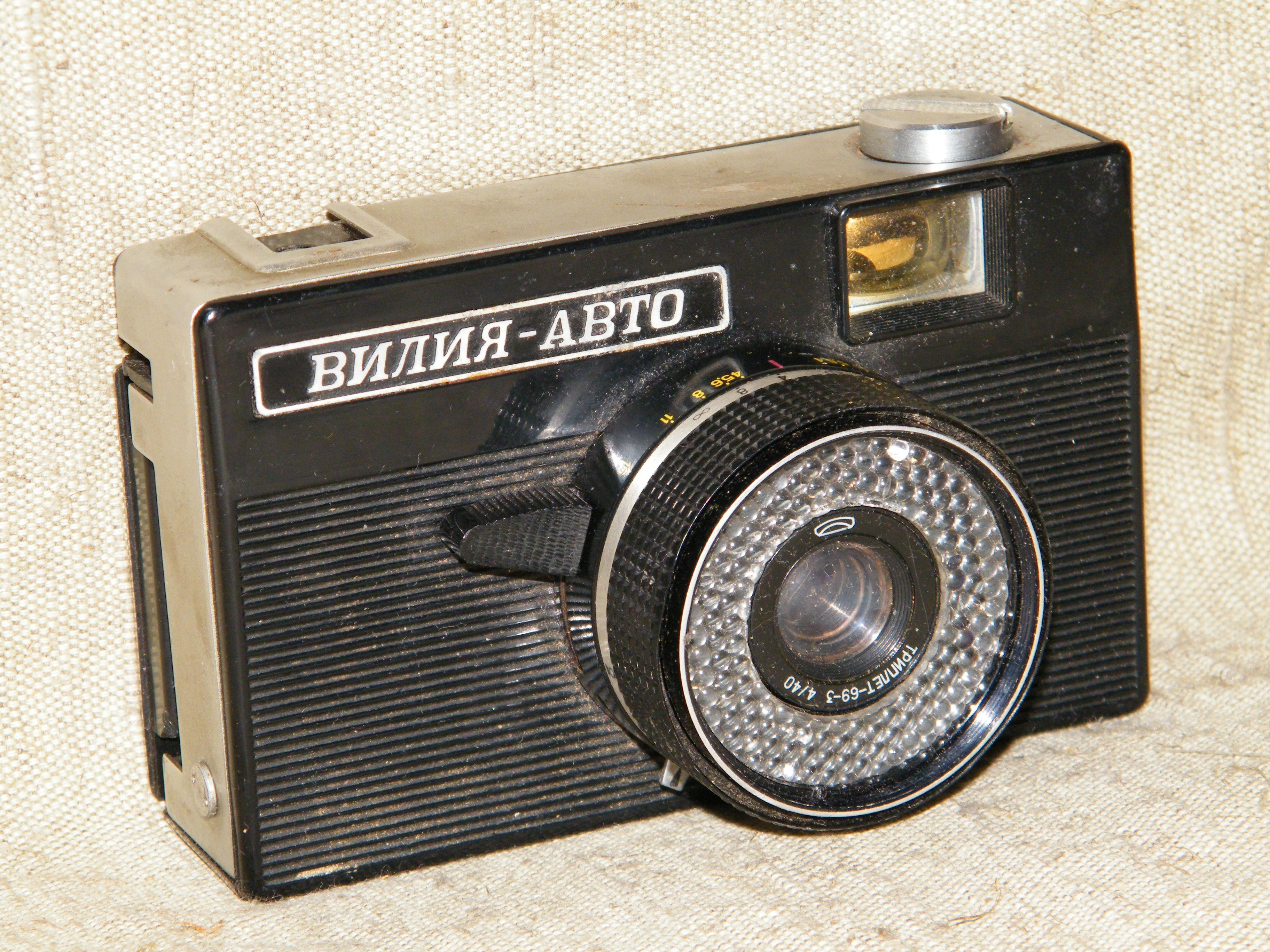 Vilia auto